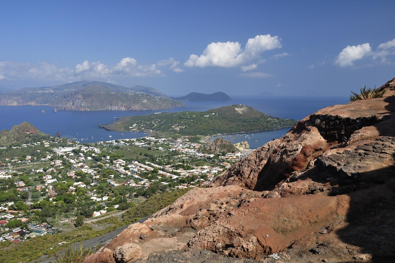 A journey to the Aeolian islands. Crater of Vulcano Island, Italy.